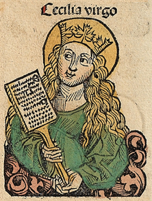 This is a part of a scan of an historical document: Title: Schedelsche Weltchronik or Nuremberg Chronicle